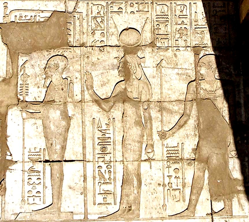 Ptah, Hathor and Imhotep in the temple of Ptah at Karnak, ptolemaic aera